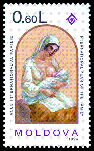 Stamp of Moldova